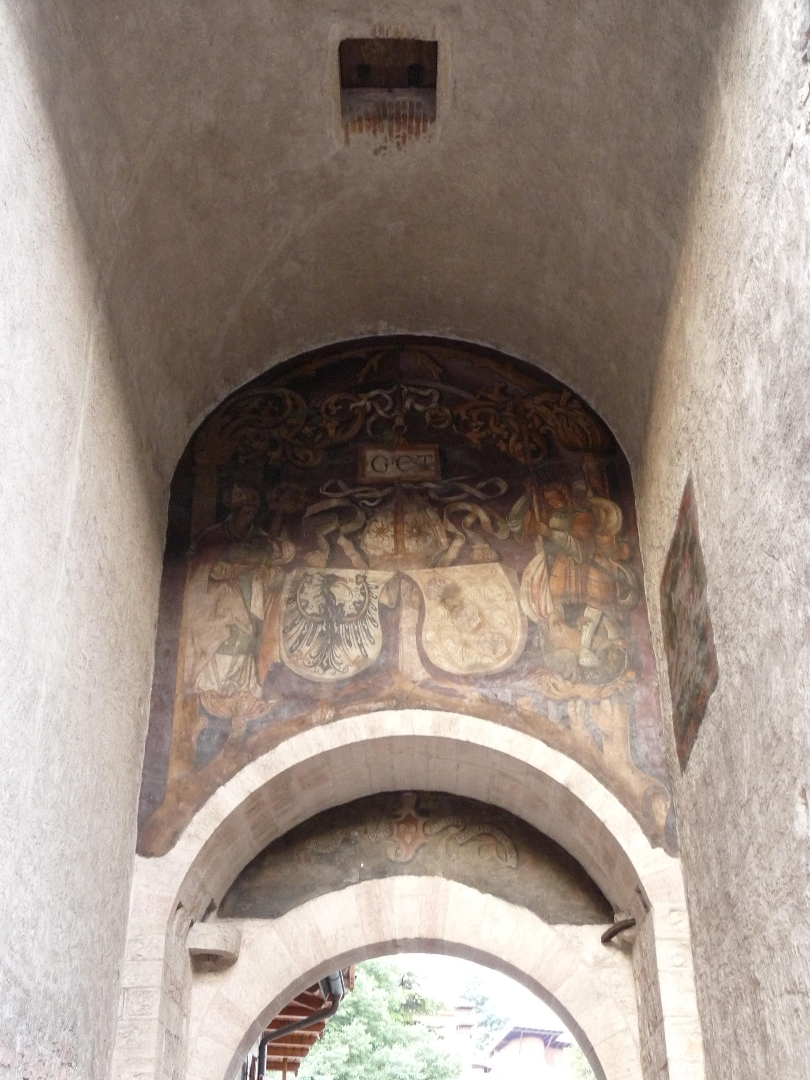 Trento (Italy): Frescos in the city gate at Torre Aquila ("Eagle Tower"), at the southern end of the Castello del Buonconsiglio.